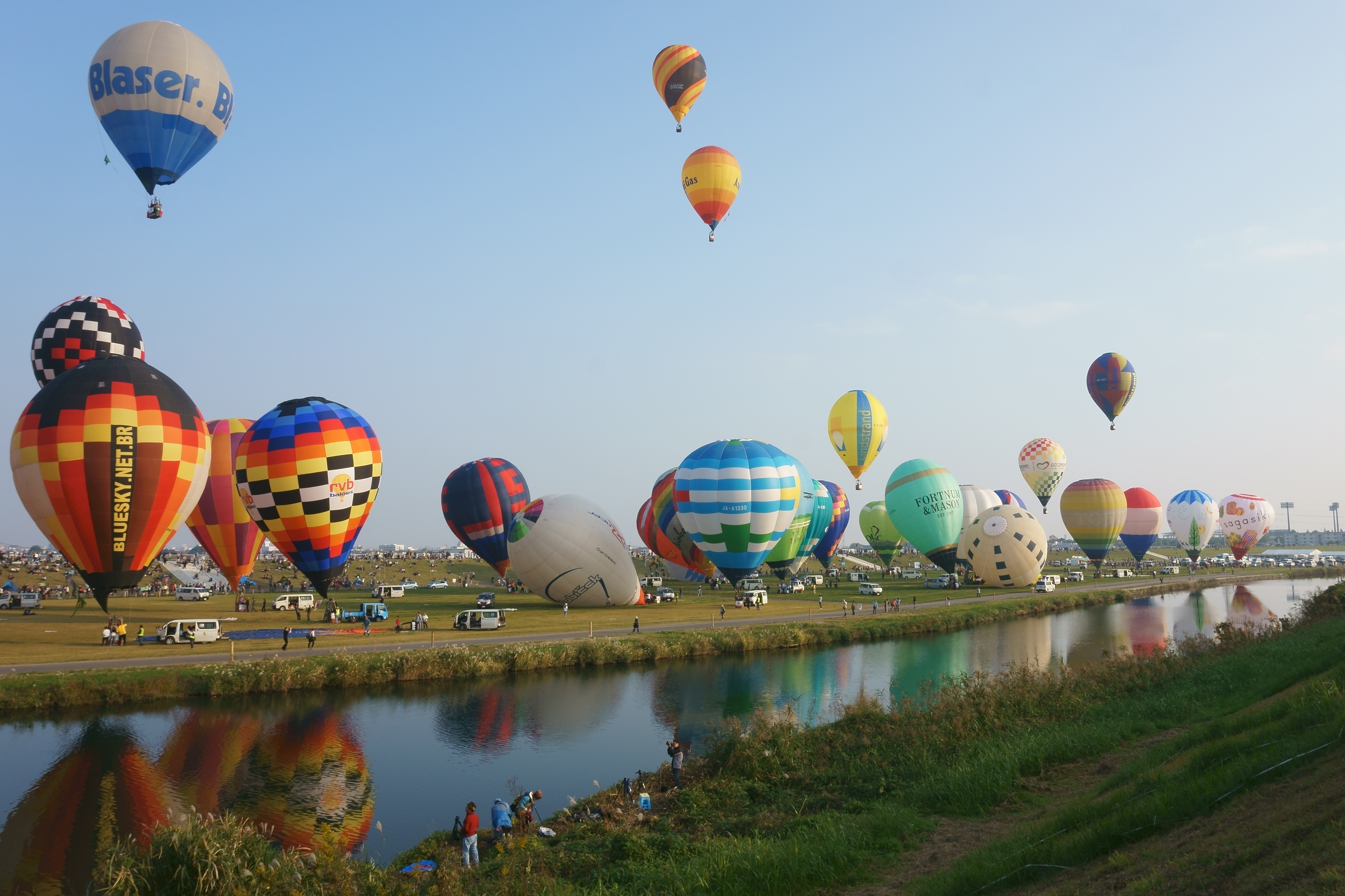 Launching of hot air balloons. Some of them have took off.